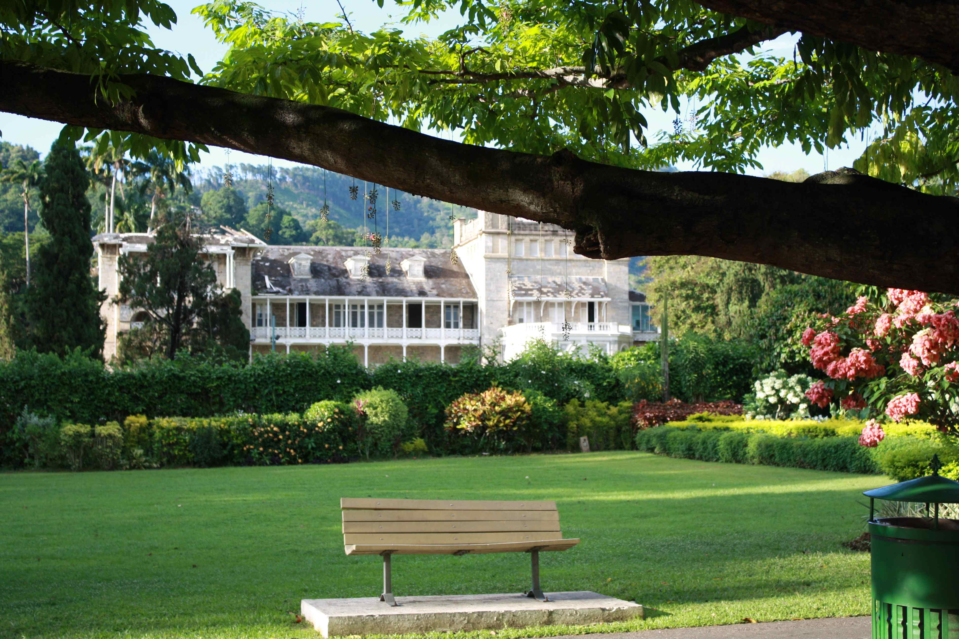 The President's House from the Trinidad Botanical Garden — in Port of Spain, Trinidad and Tobago.